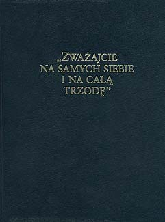 "Pay Attention to Yourselves and to All the Flock" 1991, WATCH TOWER BIBLE AND TRACT SOCIETY OF PENNSYLVANIA